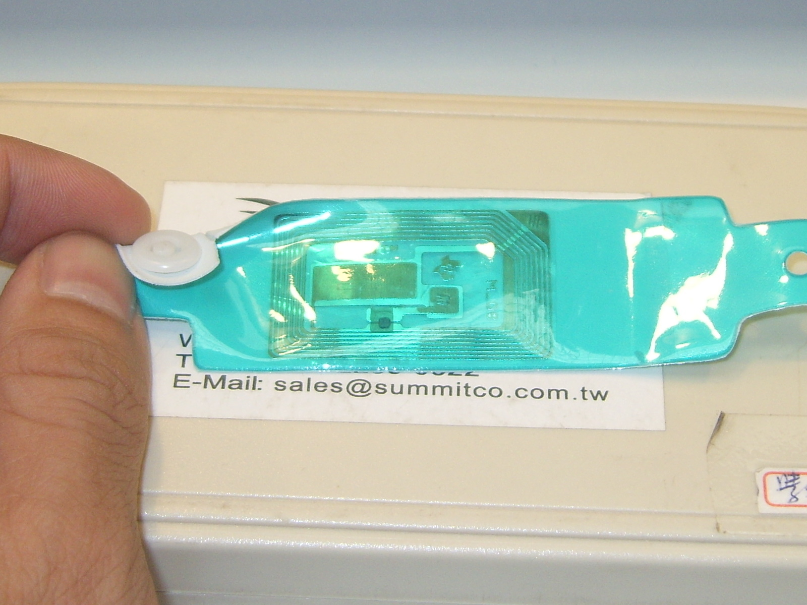 2008 Digital Cities Convention Taoyuan: A RFID tag demonstrated by Yuan Ze University.